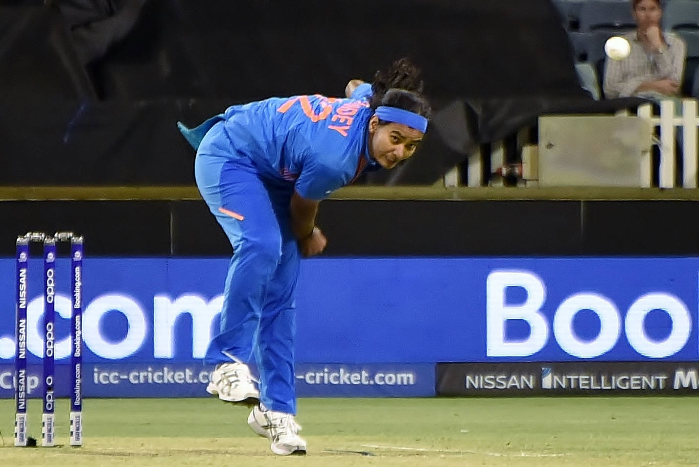 Shikha Pandey bowling for India against Bangladesh during their 2020 ICC Women's T20 World Cup match at the WACA Ground in Perth, Australia